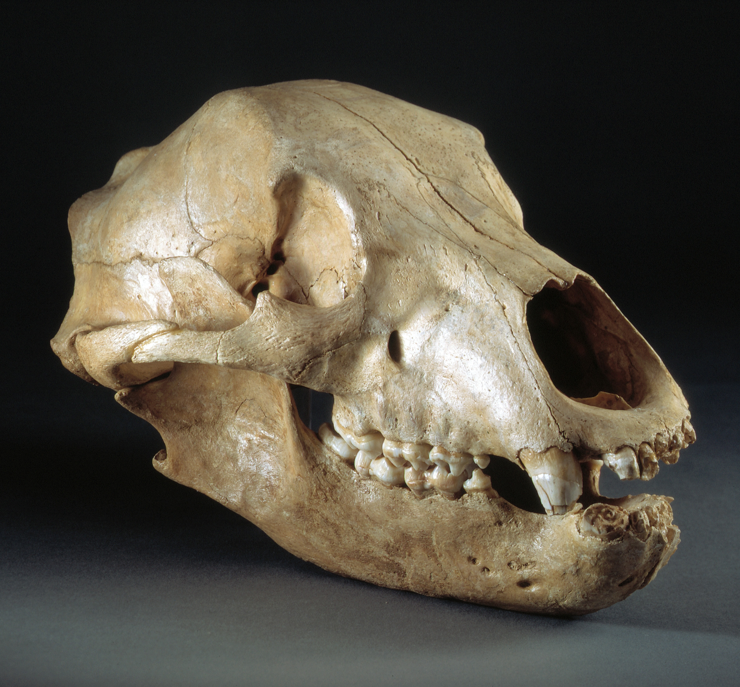 Female bear skull found in the Bichon cave (la Chaux de Fonds-Neuchâtel). 11000 B.C. N° inv. CF-BI-3, resin facsimile, Laténium. Original at Natural History Museum, La Chaux-de Fonds, n° inv. 105 a-b.Picture by Y. André / Laténium.